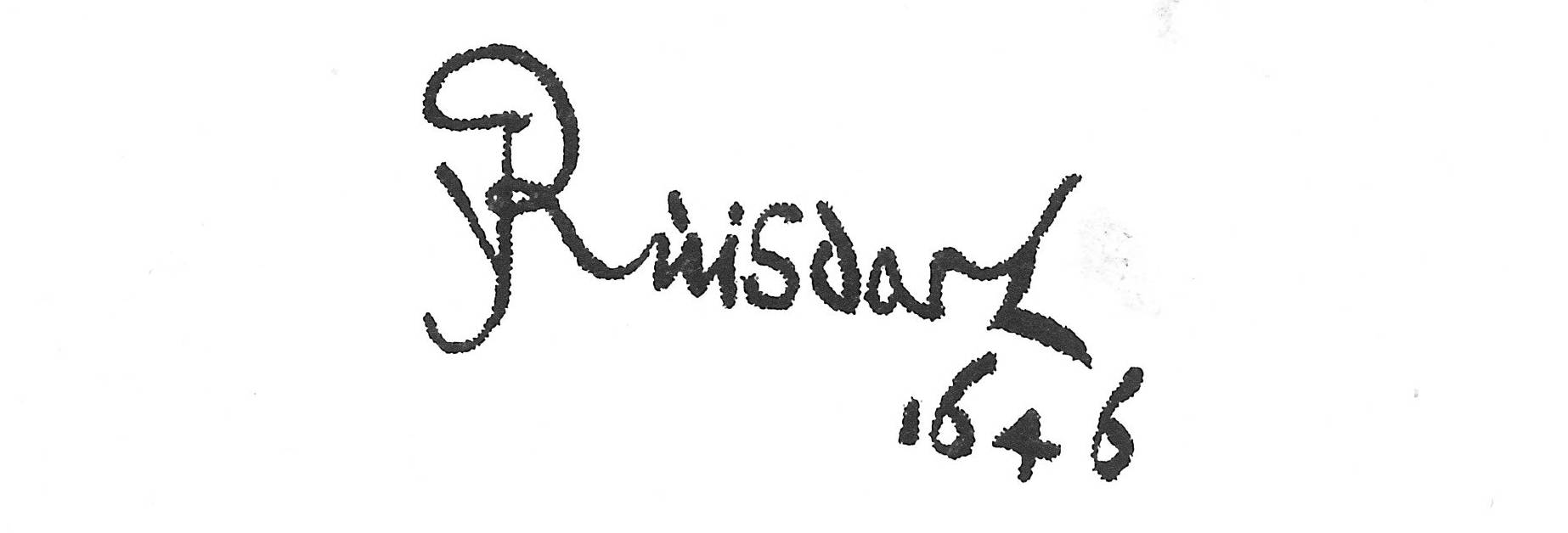 Signature by Jacob Ruisdael, 1646 (Detail from Landschaft mit Hütte, Hamburger Kunsthalle)